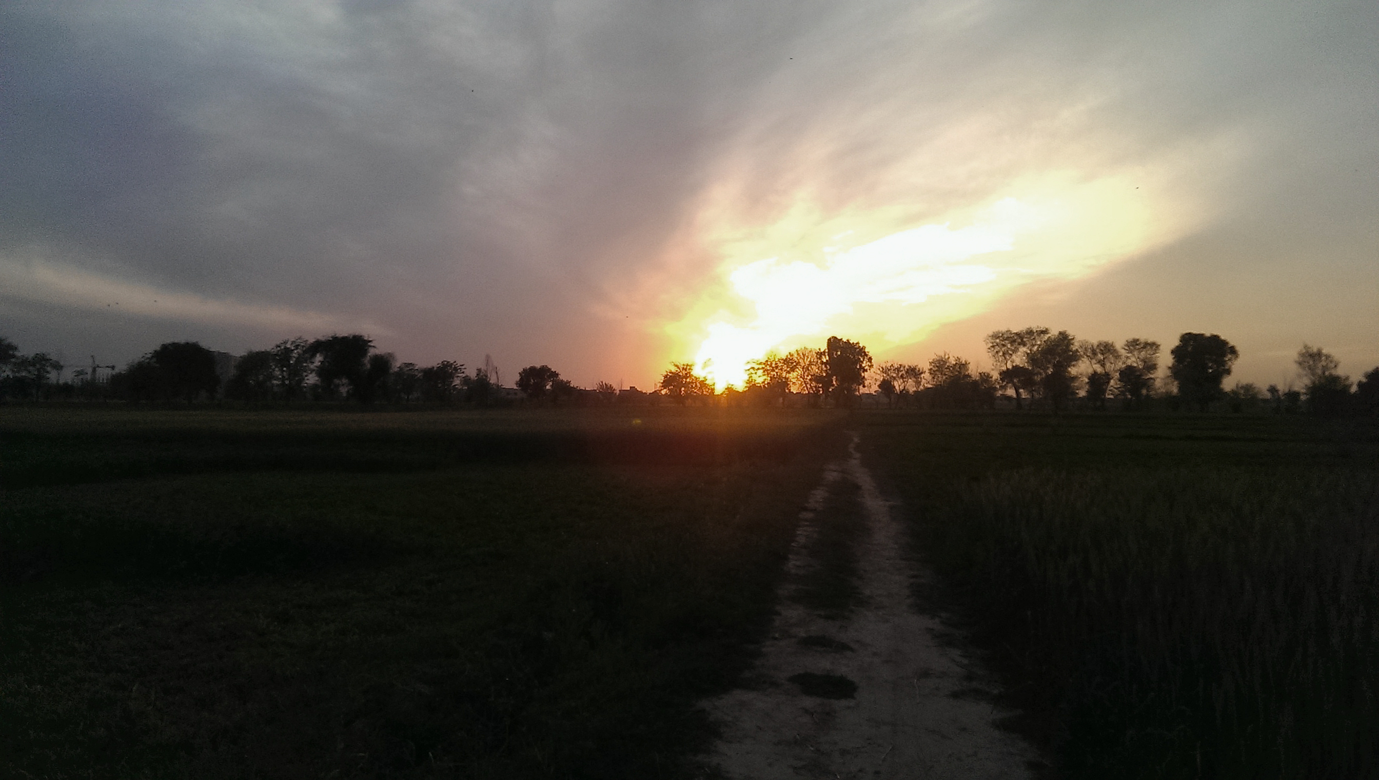 This photo also I have taken when I was running during morning great scene of clouds